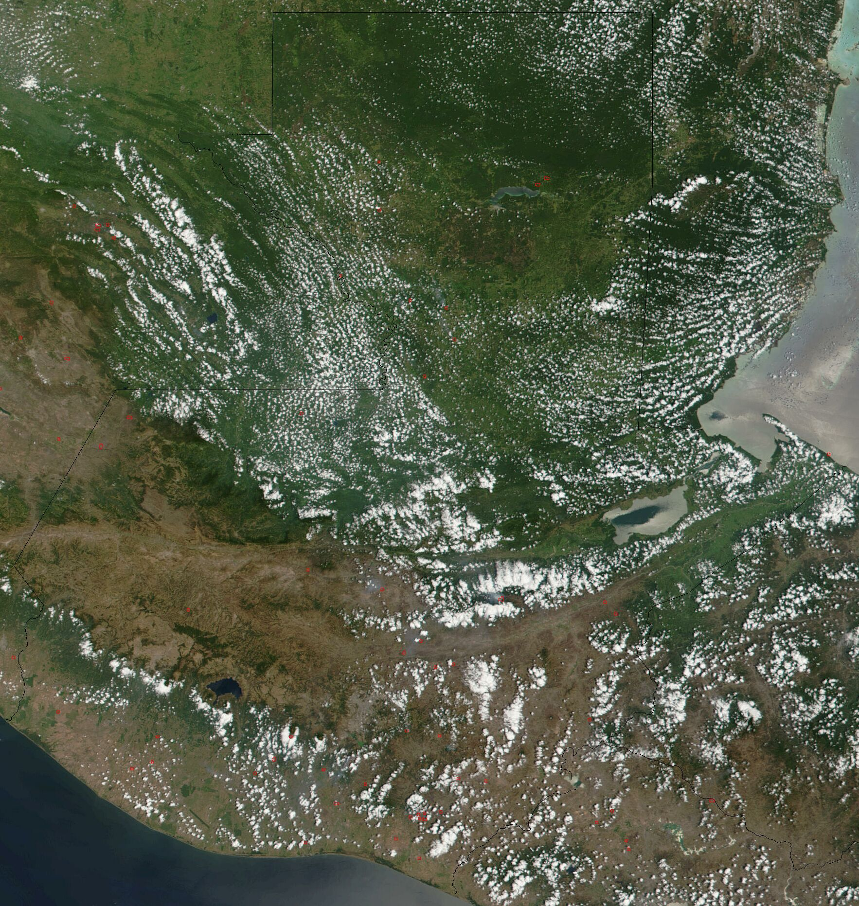 Satellite image of Guatemala in April 2002.